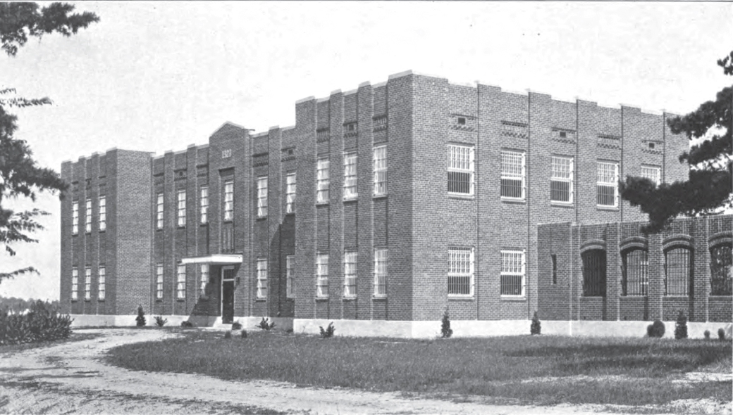 Building for Delinquent Girls